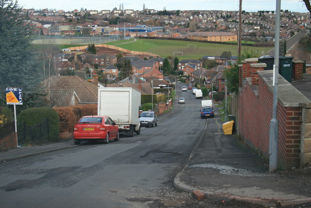 Carlton Forum from Highfield Drive Taken from the corner of Greenfeld Grove